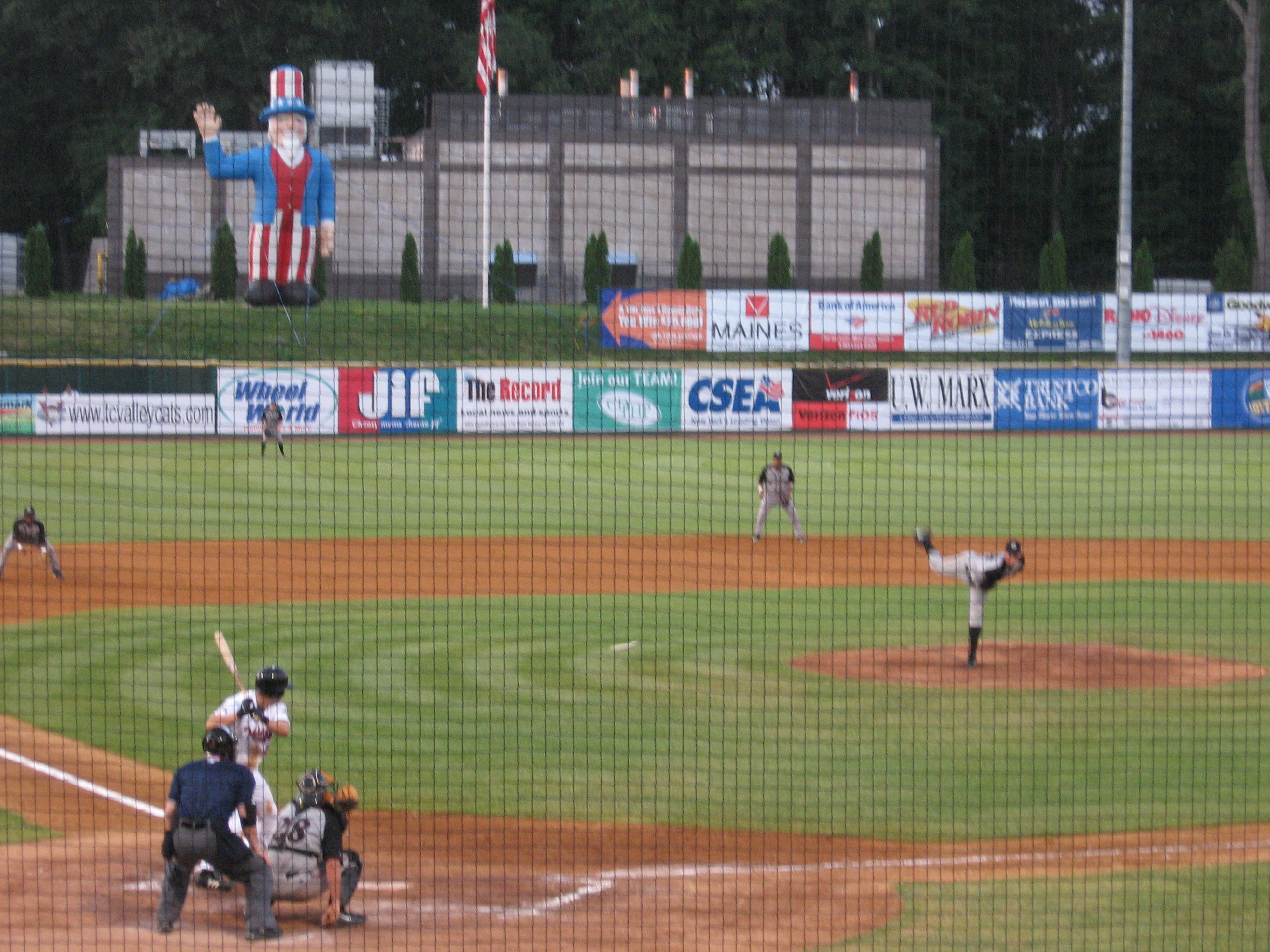 Tri-City Valley Cats game in 2006. Note the Uncle Sam. Troy is home to Uncle Sam.